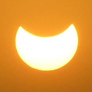 Solar Eclipse on 19.3.2007 as seen from Jaipur at 7.07 hrs